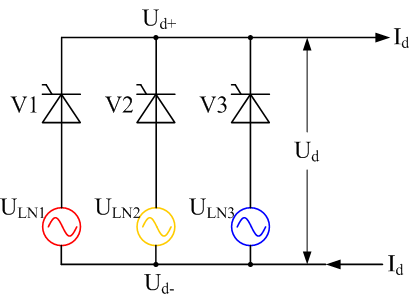 Simplified schematic of a 3-phase, half-wave thyristor rectifier circuit, ignoring supply inductance.